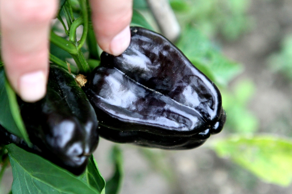 Black Paprika Black Bell Peppers. Used to grow these back home. The taste however was not too amazing.